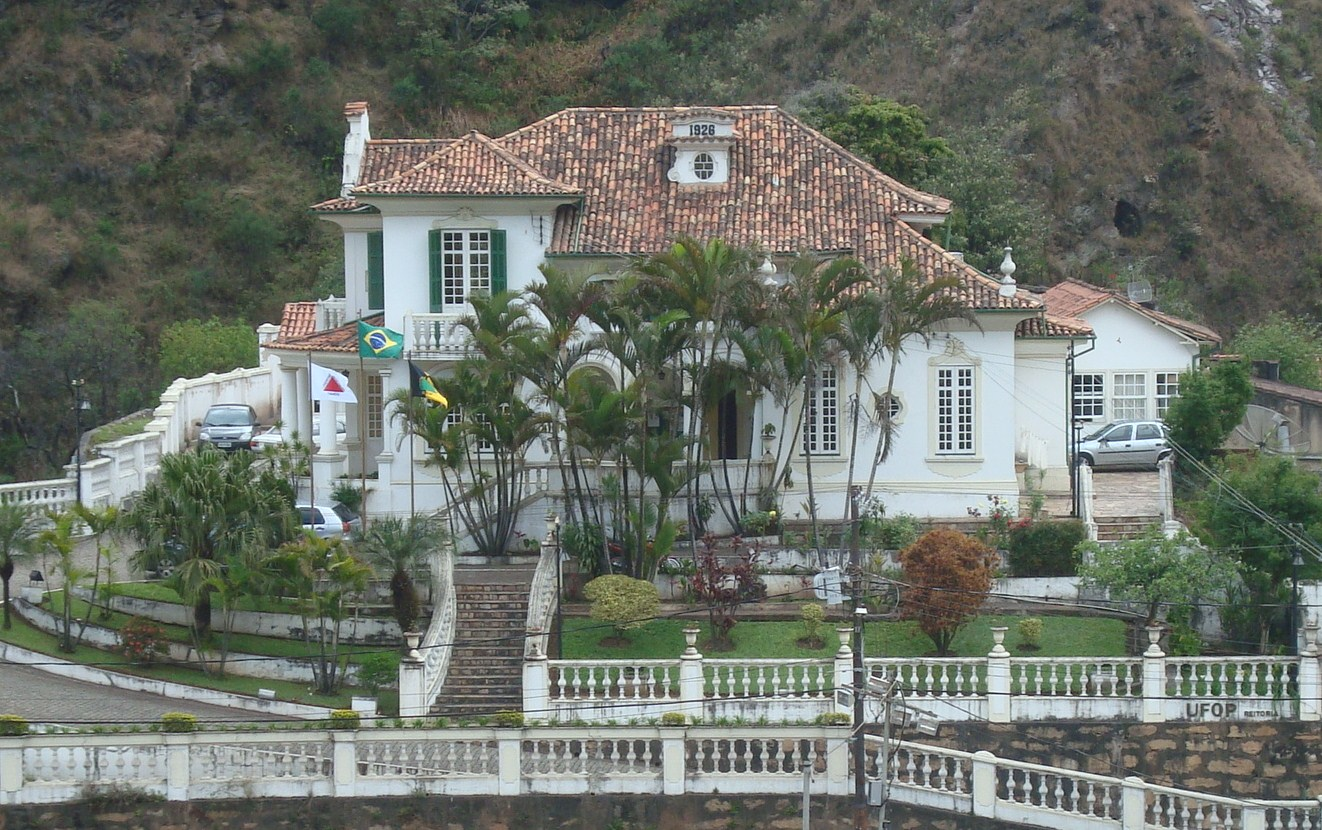 Universidade Federal de Ouro Preto headquarters